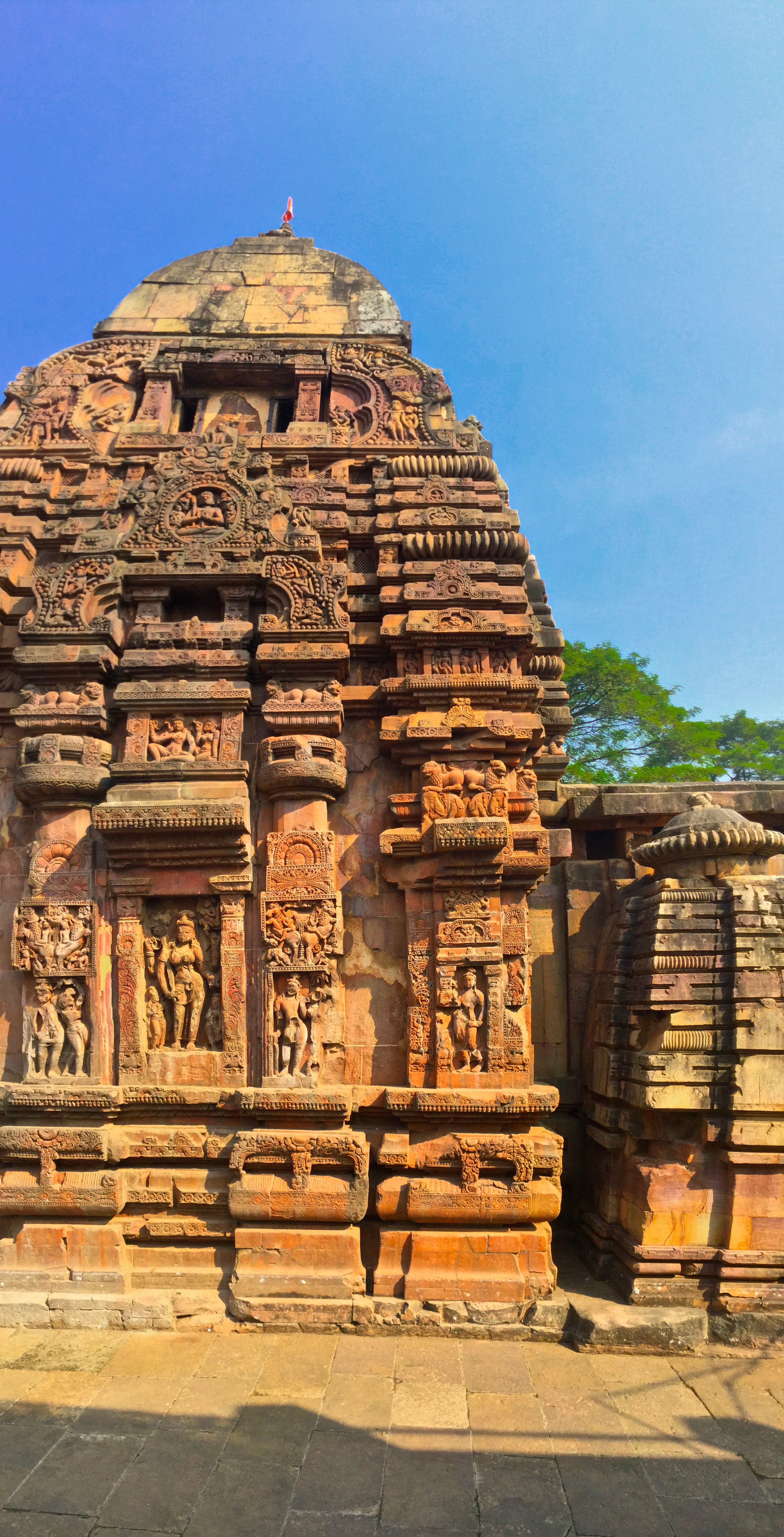 Baitala Deula (alternatively spelled Vaital Deula), 8th-century Chamunda temple in Bhubaneswar, Odisha, India. ଓଡ଼ିଆ: ଅଷ୍ଟମ ଶତାବ୍ଦୀରେ ନିର୍ମିତ ଚାମୁଣ୍ଡାଙ୍କ ମନ୍ଦିର ବଇତାଳ ଦେଉଳ । ଏହା ଭୁବନେଶ୍ୱରରେ ସ୍ଥିତ ।